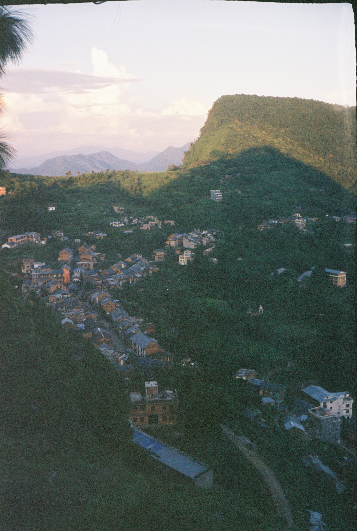 Bandipur, Nepal from the nearby hill